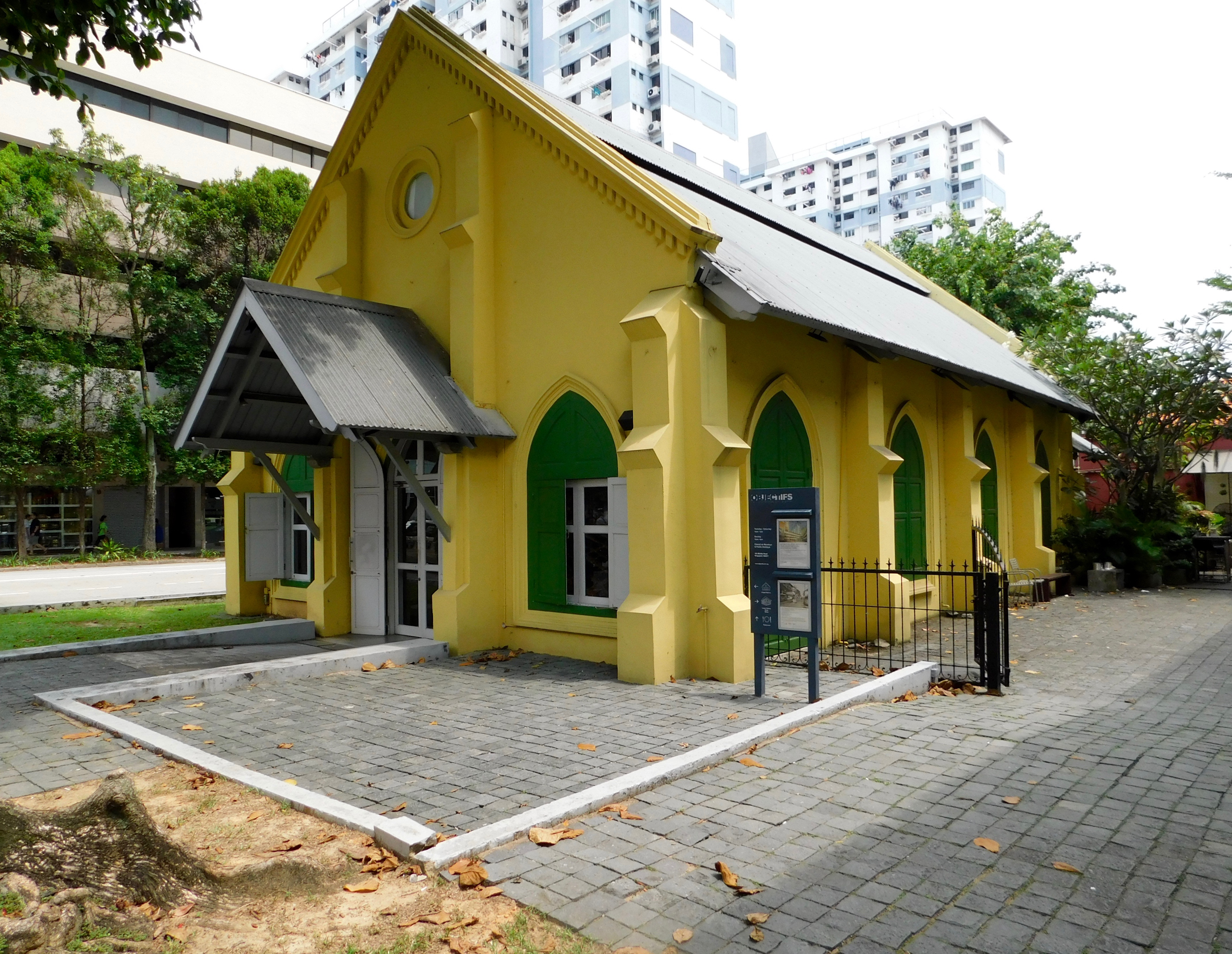 Kampong Kapor Methodist Church was founded in Singapore in 1894. It initially functioned as a church at 155 Middle Road, Singapore.